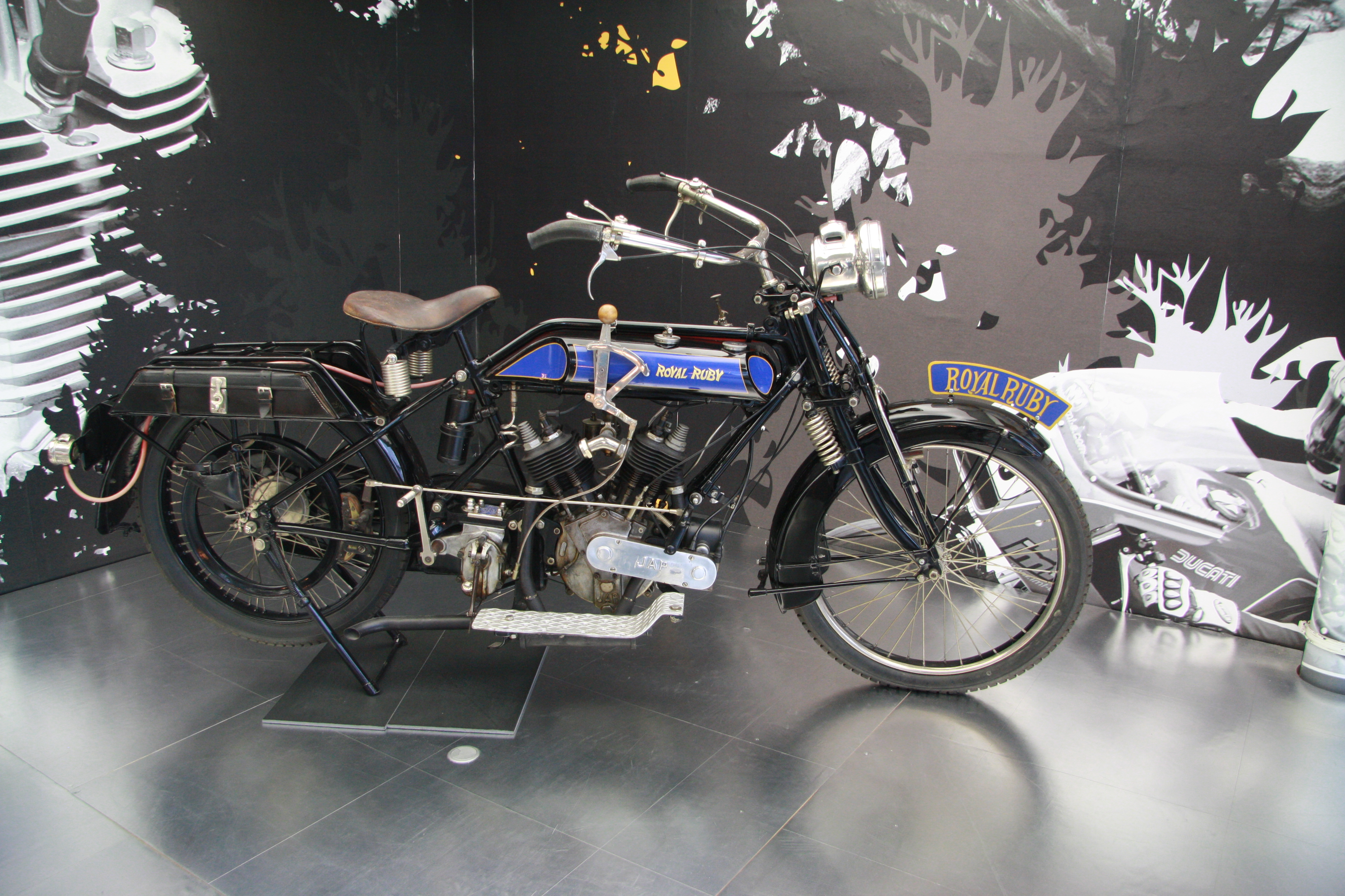 Royal Ruby 8 Twin at Car Exhibition in Kaiser-Franz-Josefs-Höhe, Grossglockner High Alpine Road.